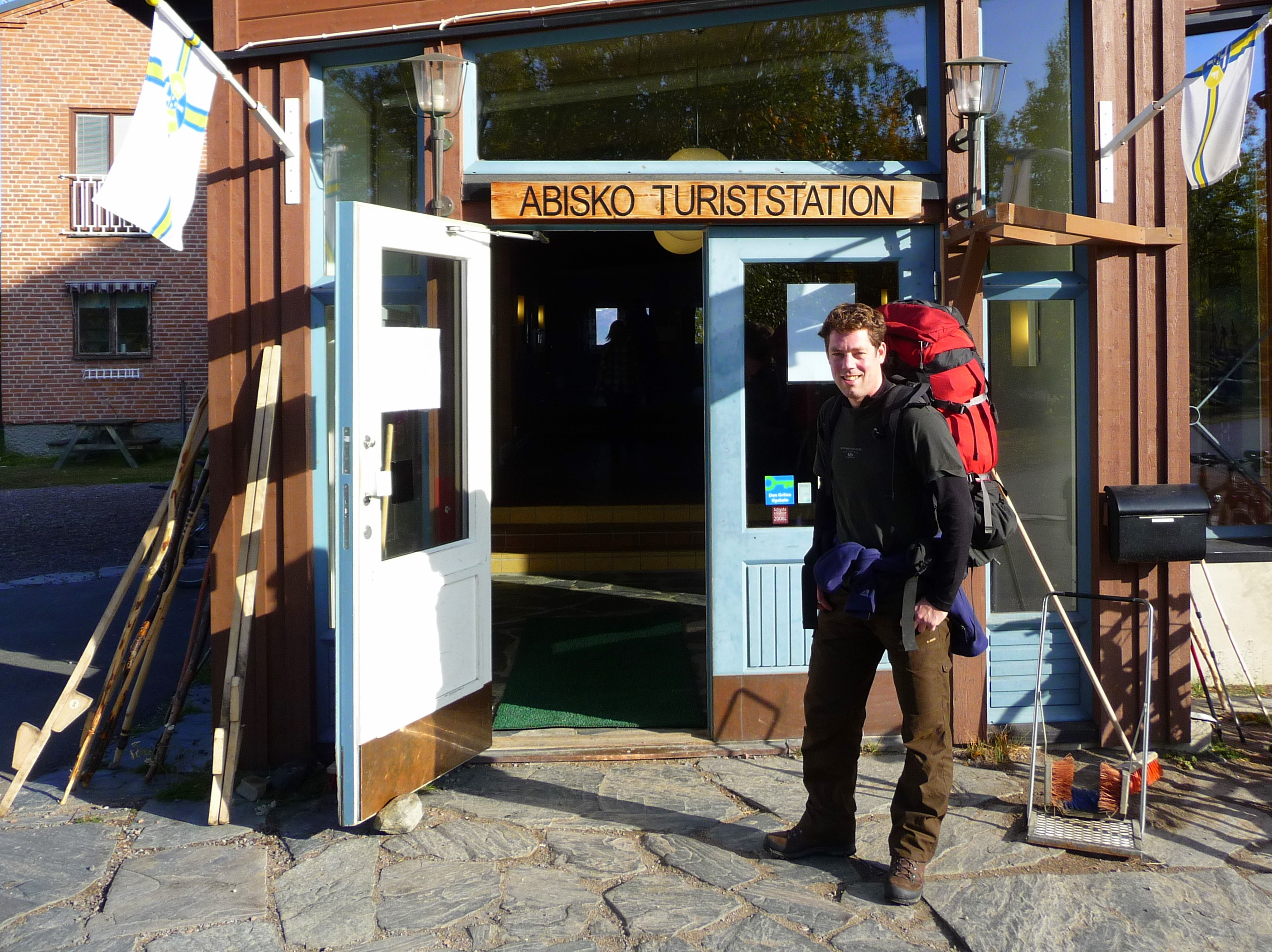 The entrance to Svenska Turistföreningen's hostel in Abisko.